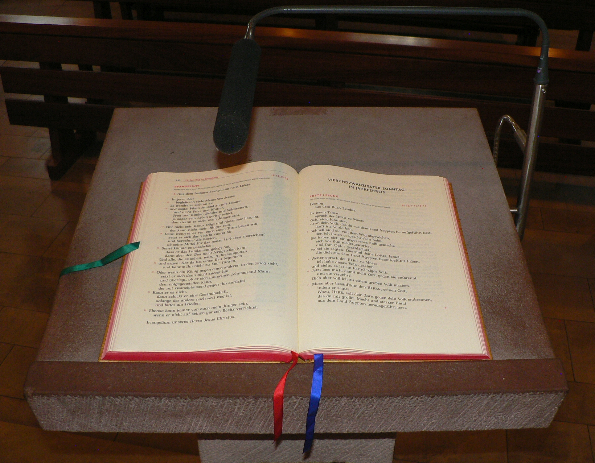 Ambo in St. Nicholas church in Germete (Germany), with the opened German-language Sunday lectionary for year C. Opened at the 23rd/24th Sunday in Ordinary time.